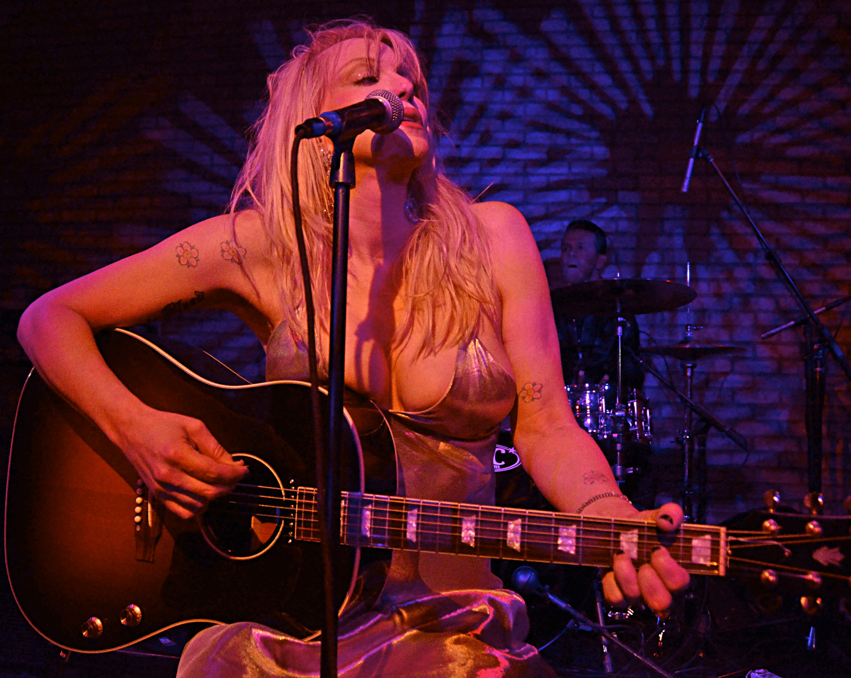 Courtney Love performing at the Dream Downtown in Manhattan, New York, September 9th, 2013.